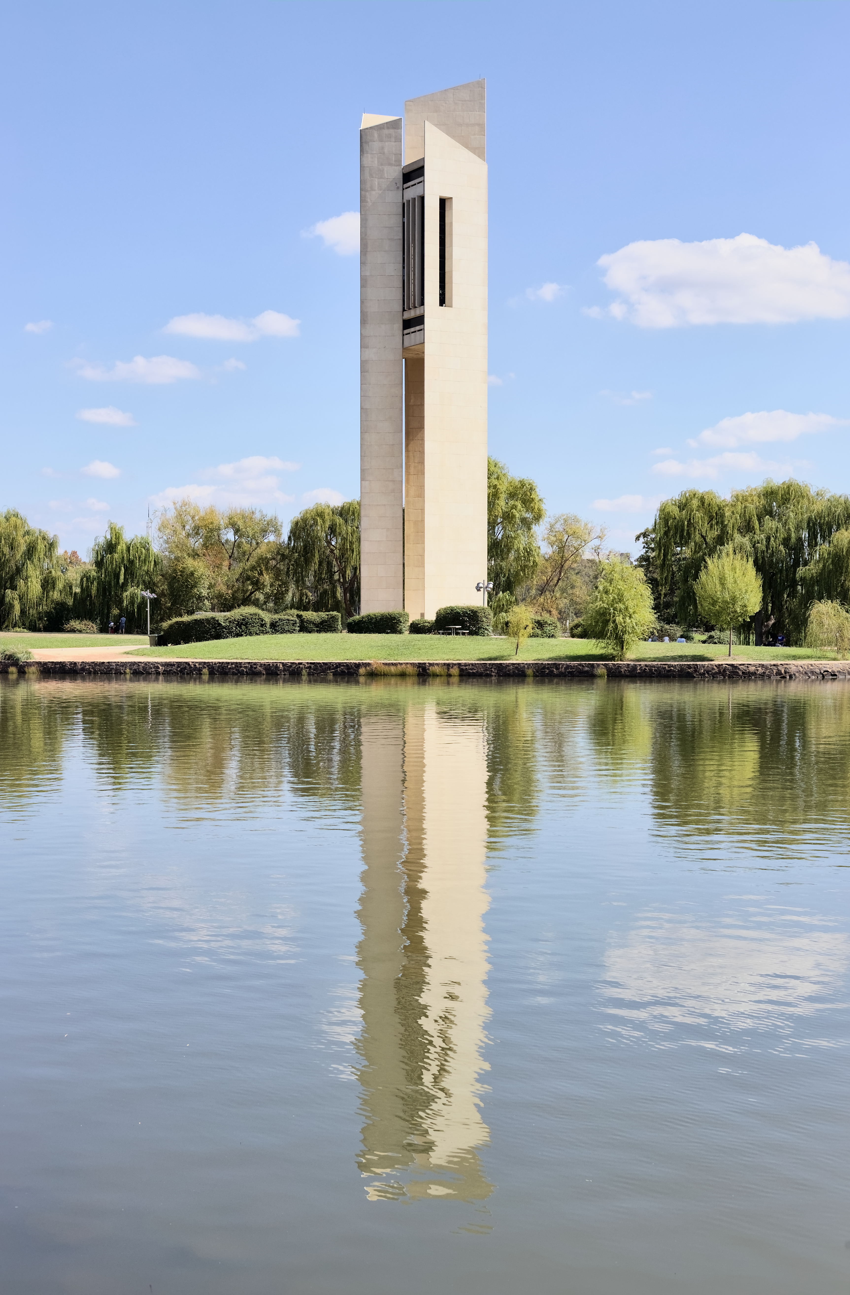 The National Carillon, Canberra, reflecting in the waters of Lake Burley Griffin. Perspective correction done with Darktable.